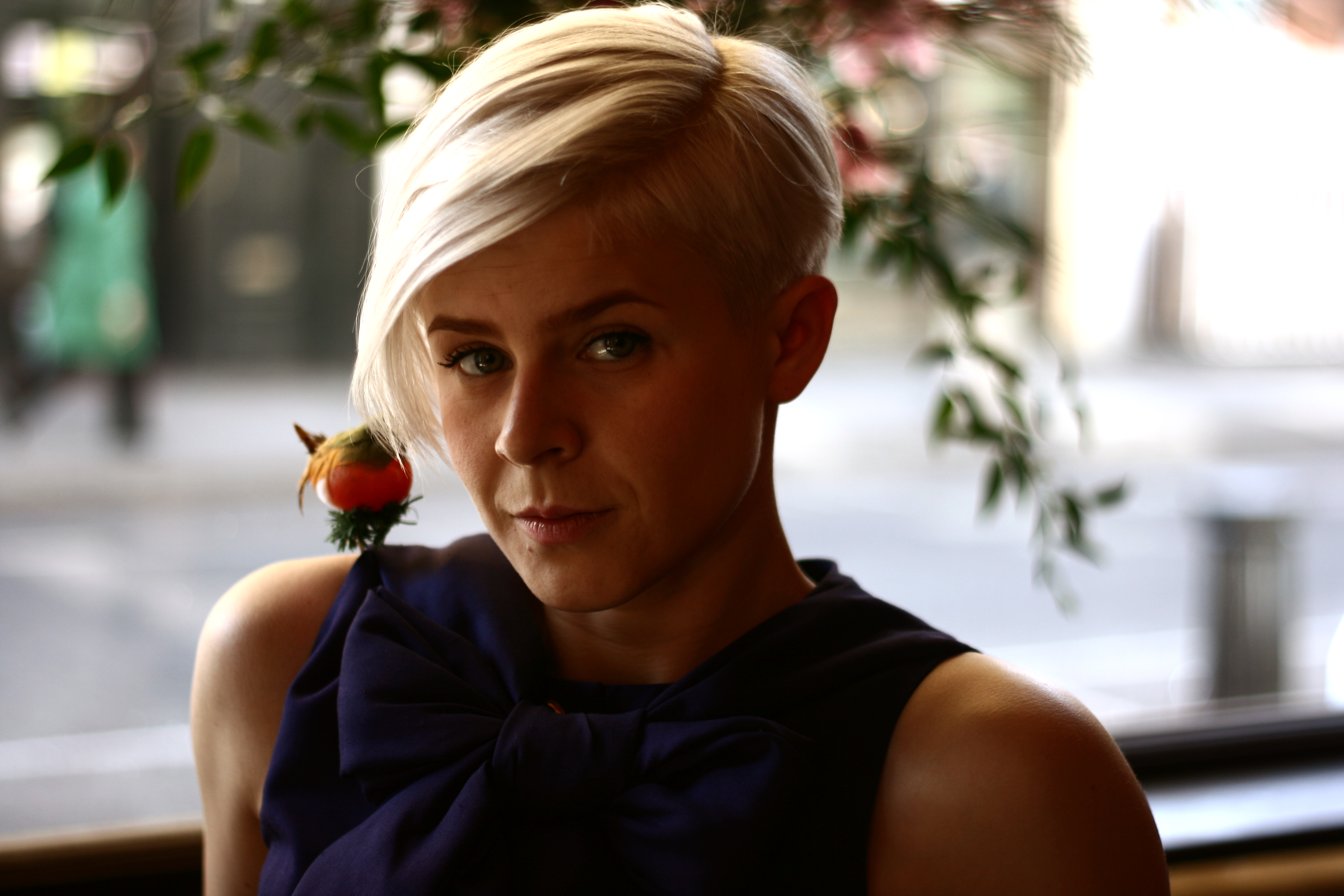 Portrait of Swedish singer-songwriter Robin Miriam Carlsson alias Robyn. I was literally given 1 minute for these photos, no joke